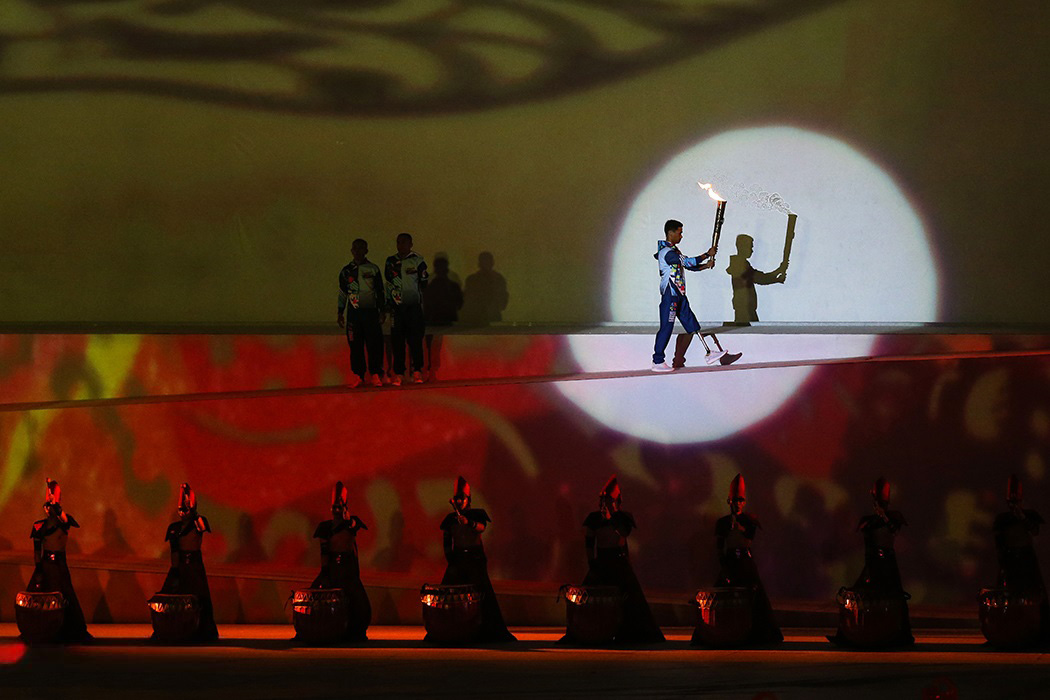 2018 Asian Para Games opening ceremony